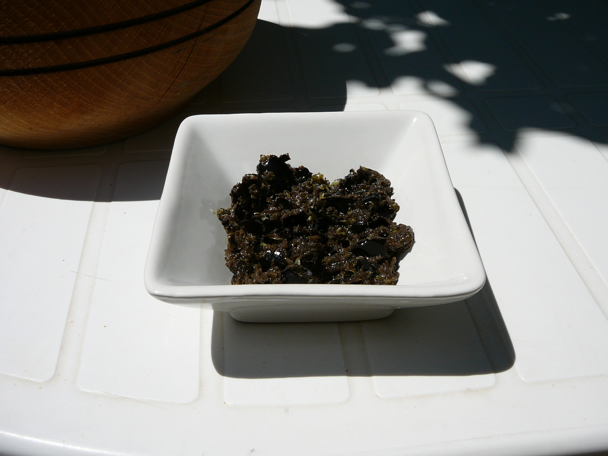 Tapenade is a Provençal dish consisting of finely chopped black olives, capers, anchovies, and olive oil.